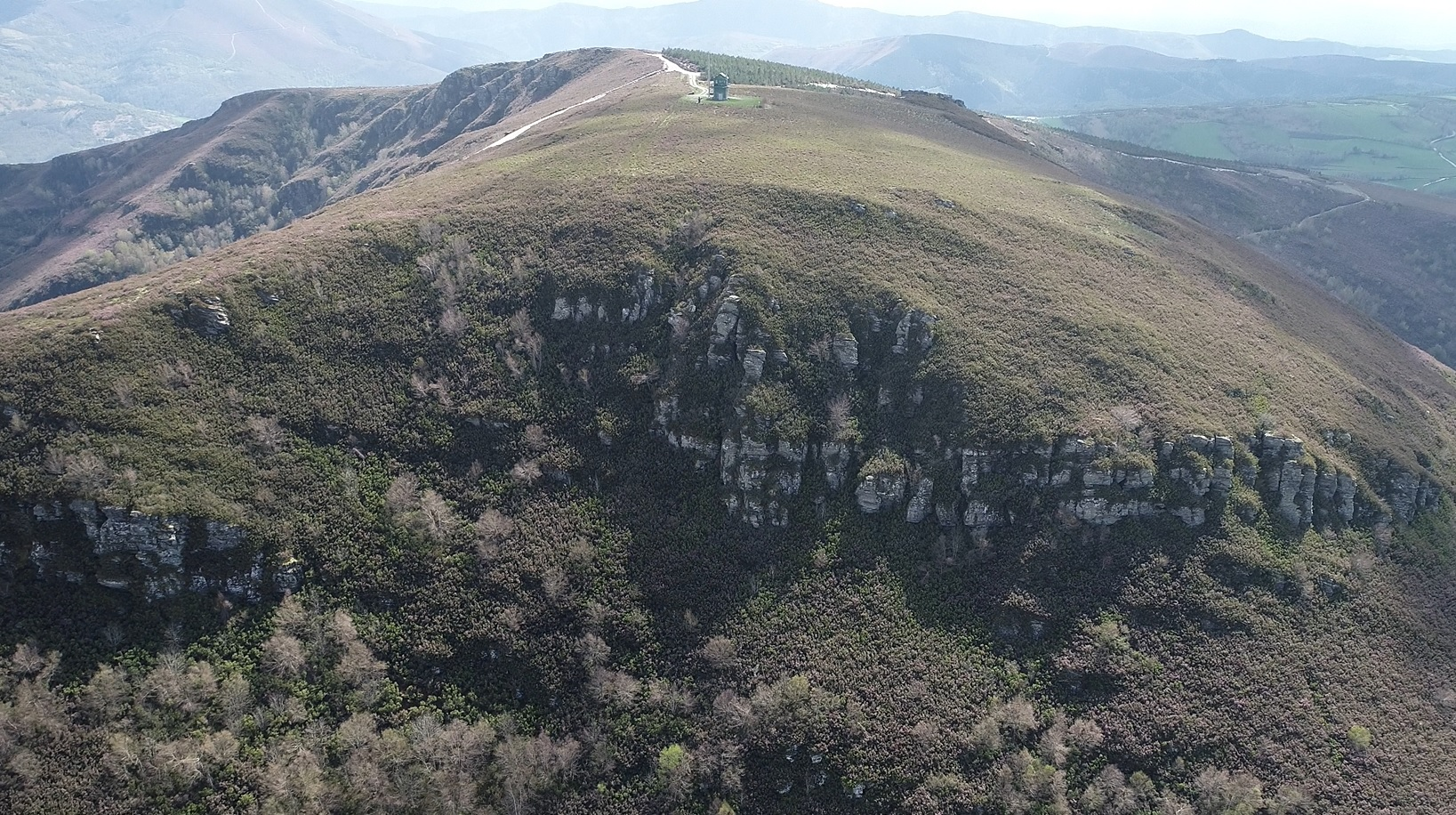 The mountain of Oribio (Lugo, Galicia, Spain)